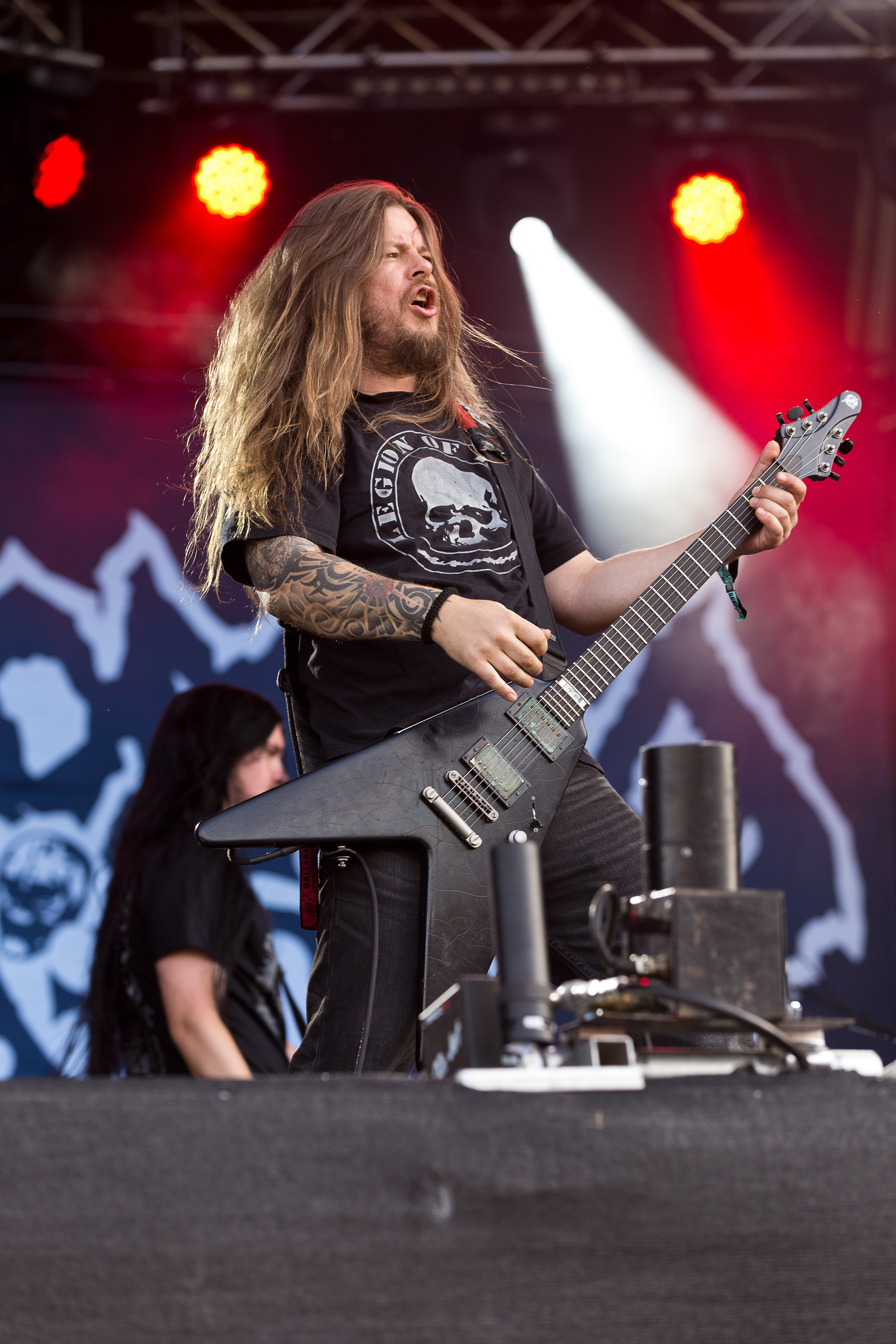 The Swedish death metal band Entombed A.D. at the Rockharz Open Air 2016 in Ballenstedt/Germany.